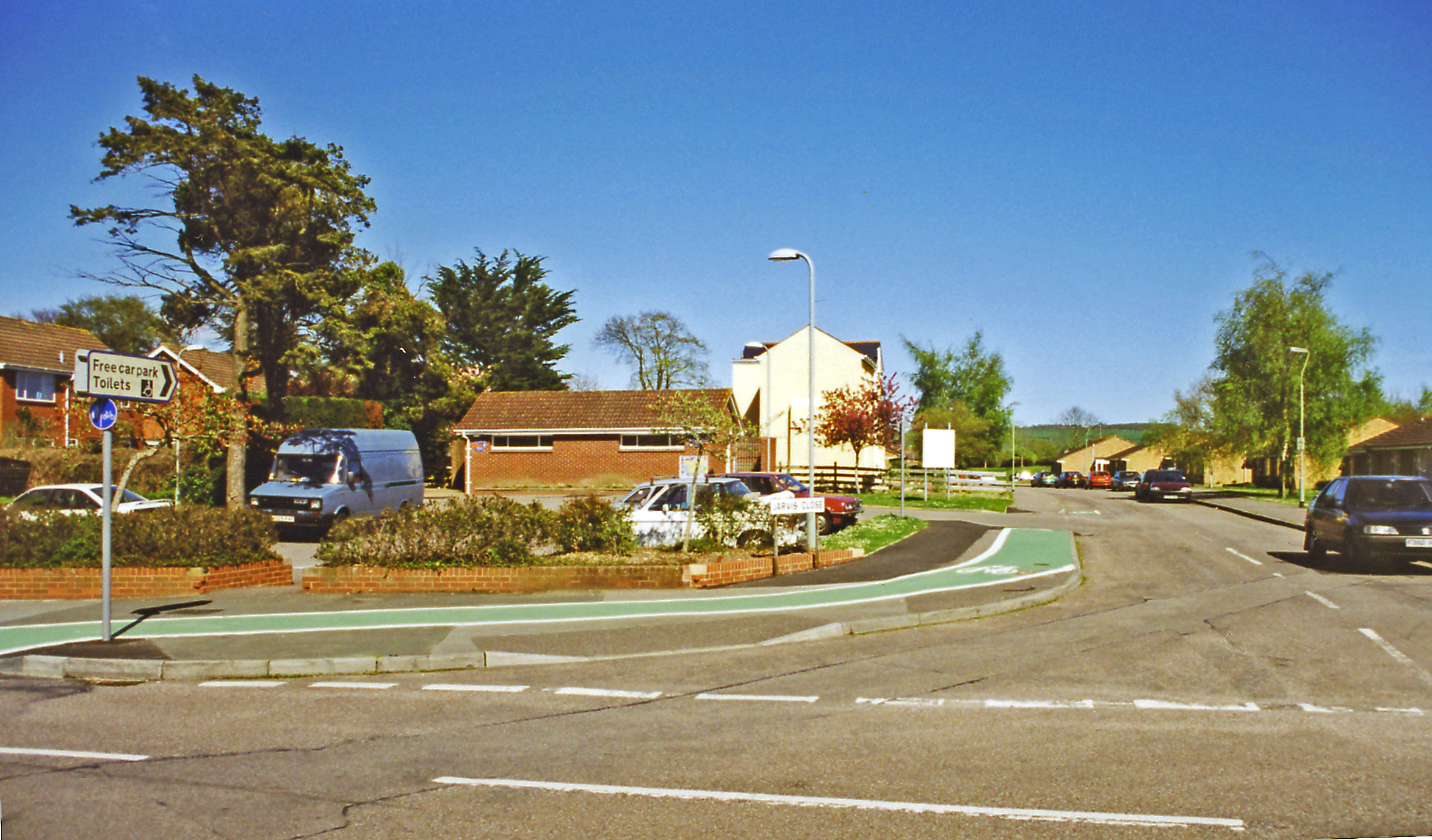 Near site of Littleham station, 2000. View east on Jervis Close off Cranford Avenue to where the station had been: ex-LSWR (Sidmouth Junction) - Tipton St Johns (to right) - (to left) Exmouth branch, closed 6/3/67. We are in a forest of new housing, half a mile west of the old village of Littleham.